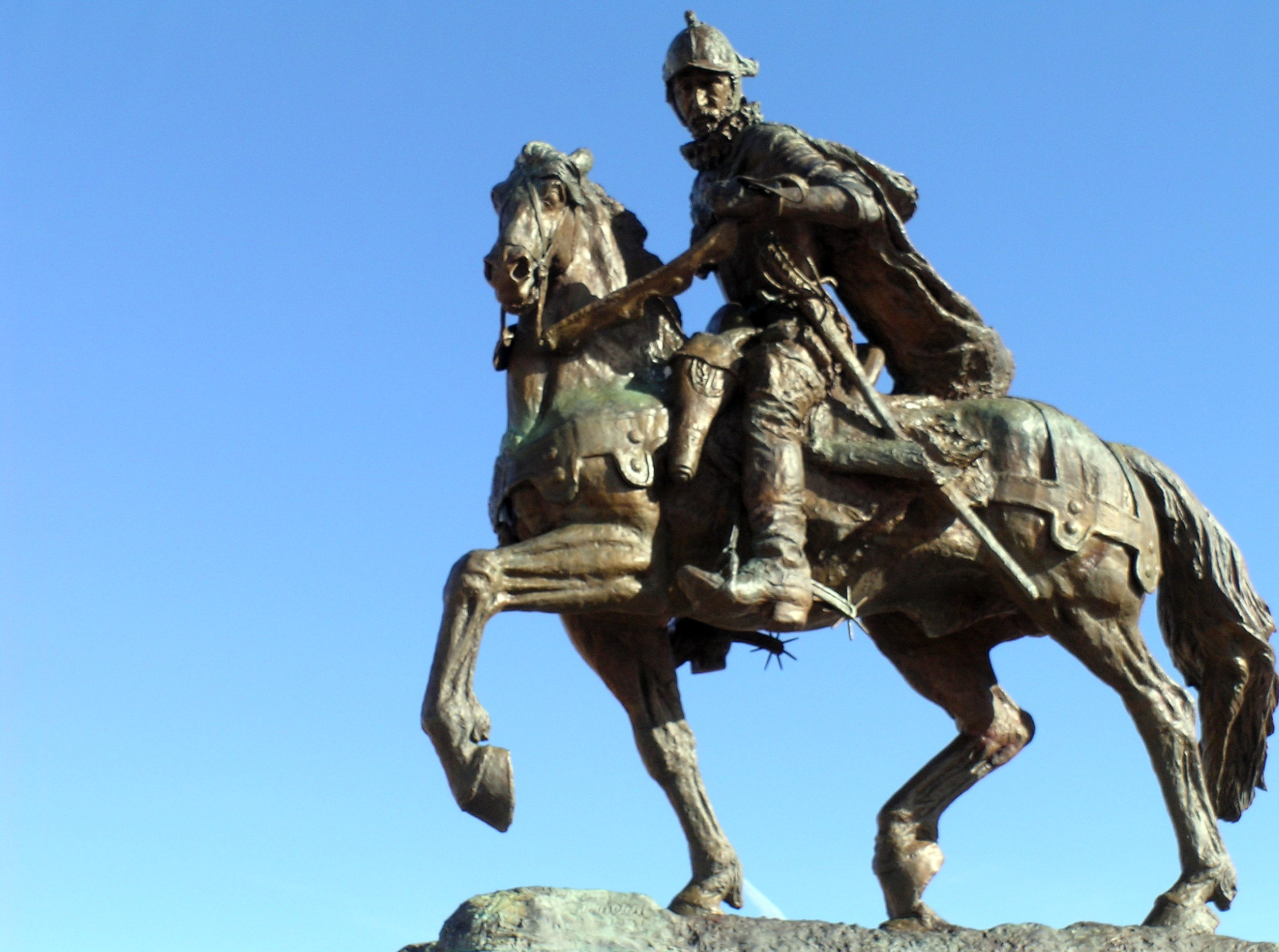 Onate Monument Center, Alcalde, NM Equestrian Statue of Juan De Onate